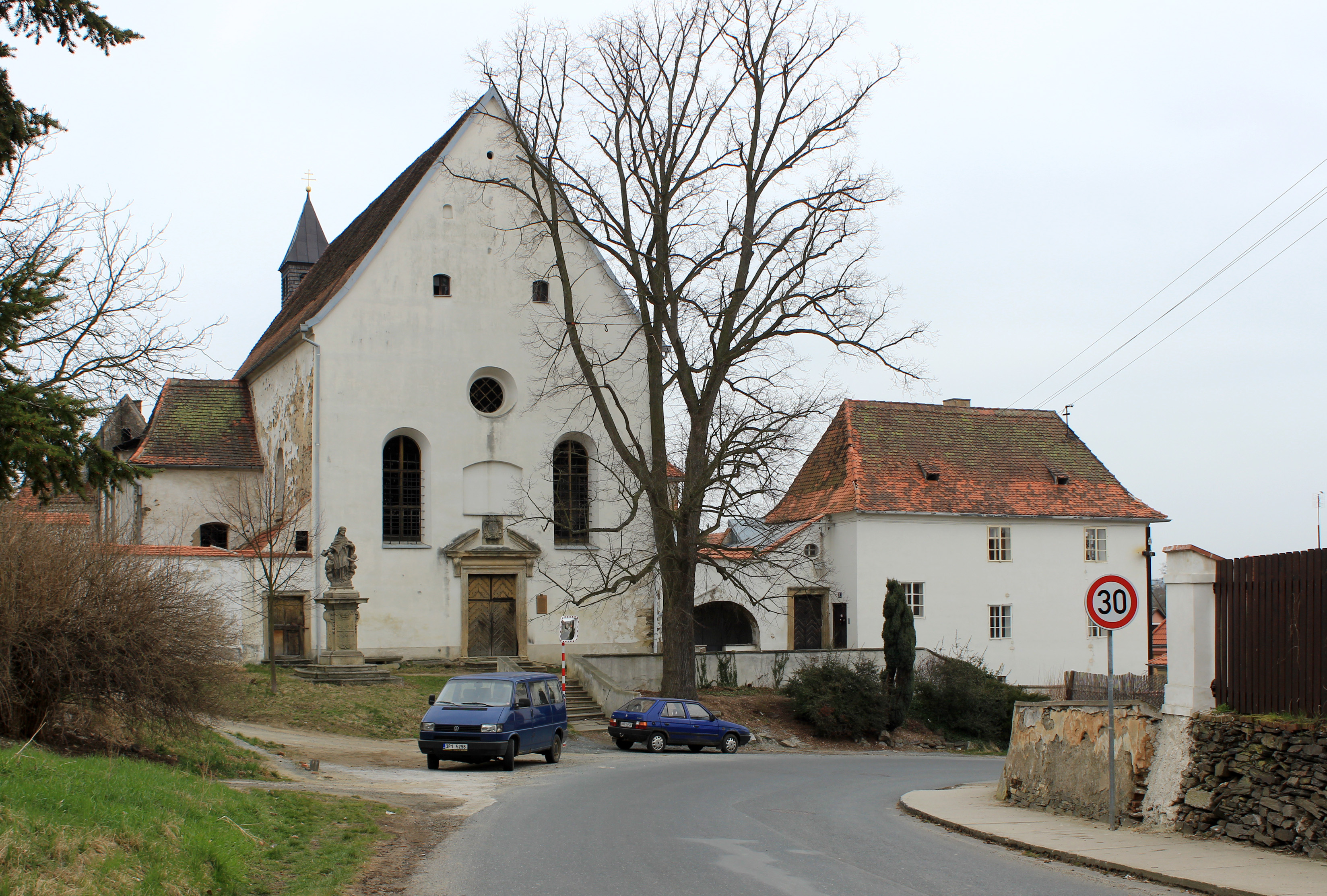 Monastery in Plzeňské Předměstí, part of Horšovský Týn, Czech Republic.